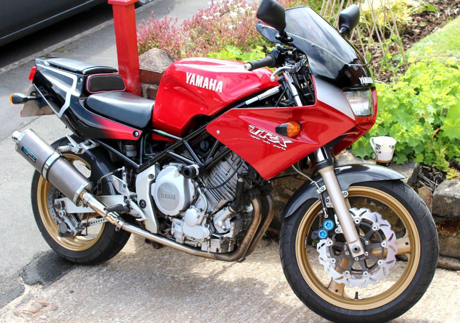 Modified TRX850 with Blue-Spot callipers, wavy disks and titanium cans.